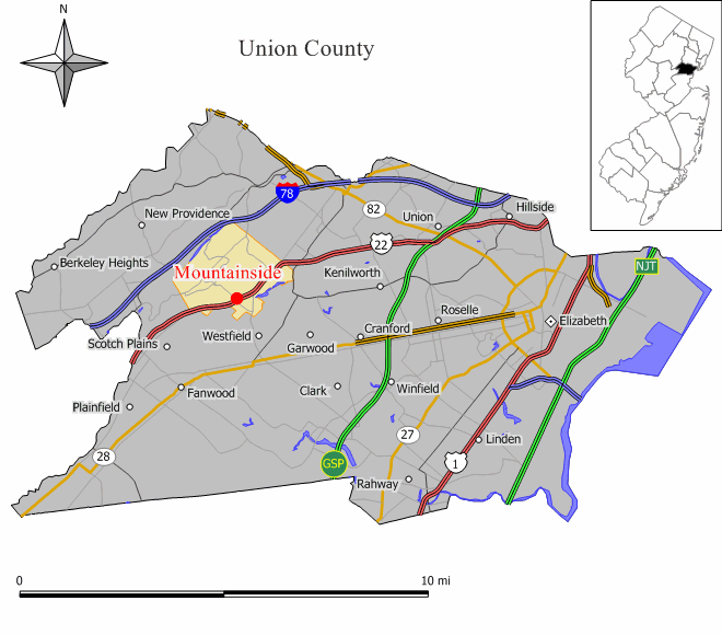 Source: Jim Irwin Original work by Jim Irwin, December 2005.